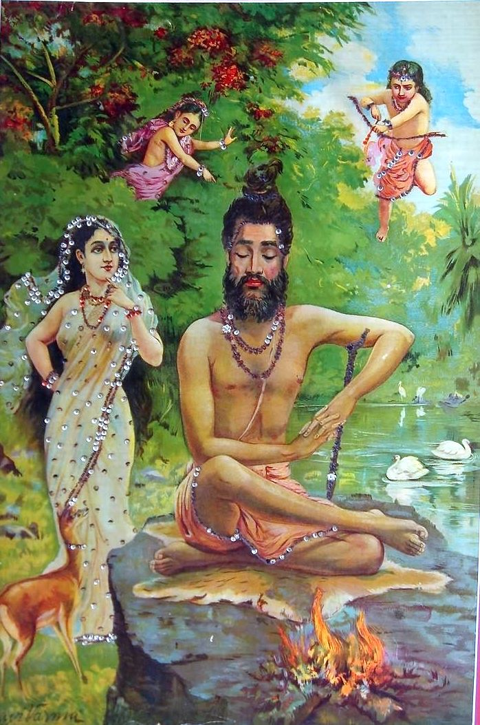 Vishvamitra tapobhang, a version with added sequins, from the Ravi Varma studio